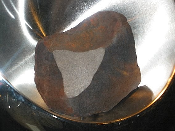 Meteorite Neuschwanstein (EL6 chondrite), fell 2002 April 06 in Bavaria, Germany. Photo taken on 2002 October 25 at the Munich Mineral and Gem Show, where this meteorite was first presented to the public. Shown here is the first of three meteorites recovered from this fall. This specimen had a mass of 1750g before samples for classification and scientific study were cut off.